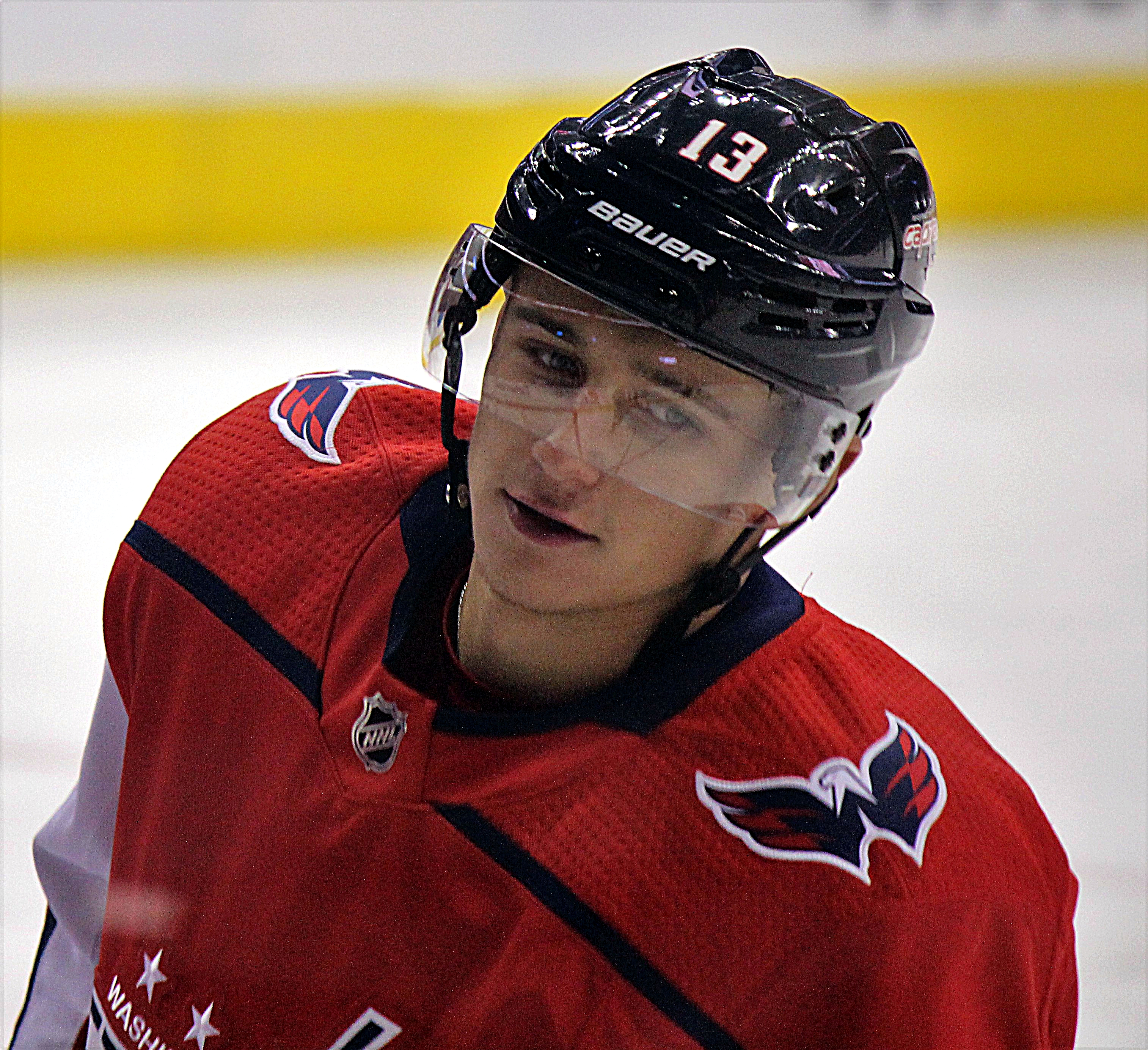 Washington Capitals forward Jakub Vrana during a game against the Pittsburgh Penguins, November 10, 2017, at Capital One Arena in Washington, D.C.